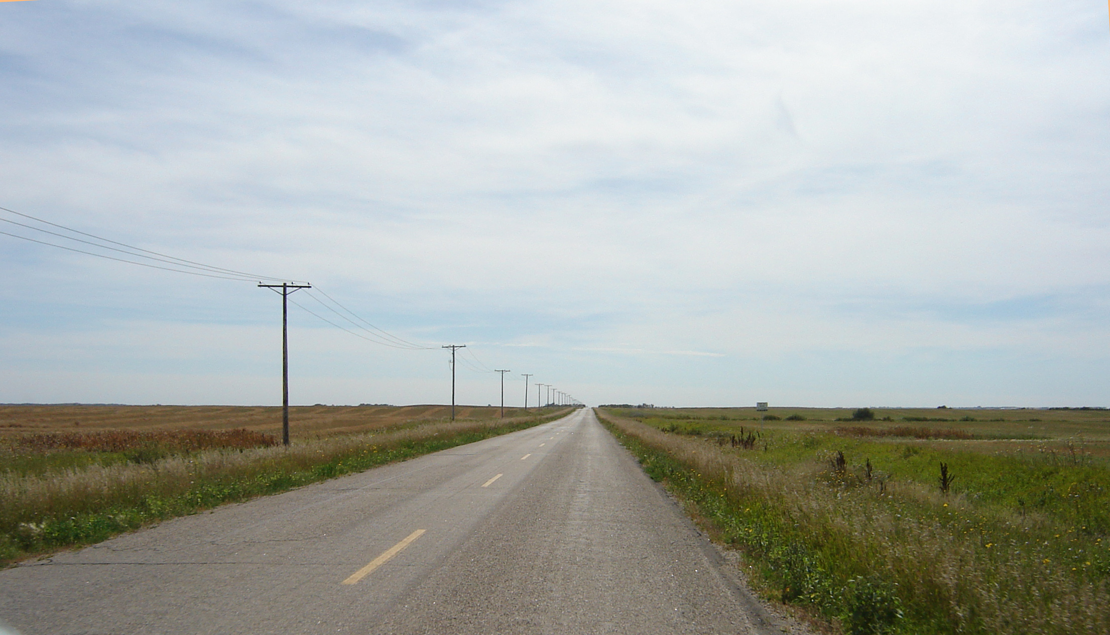 Sk Hwy 35 Between Fort Qu'Appelle and Qu'Appelle Saskatchewan